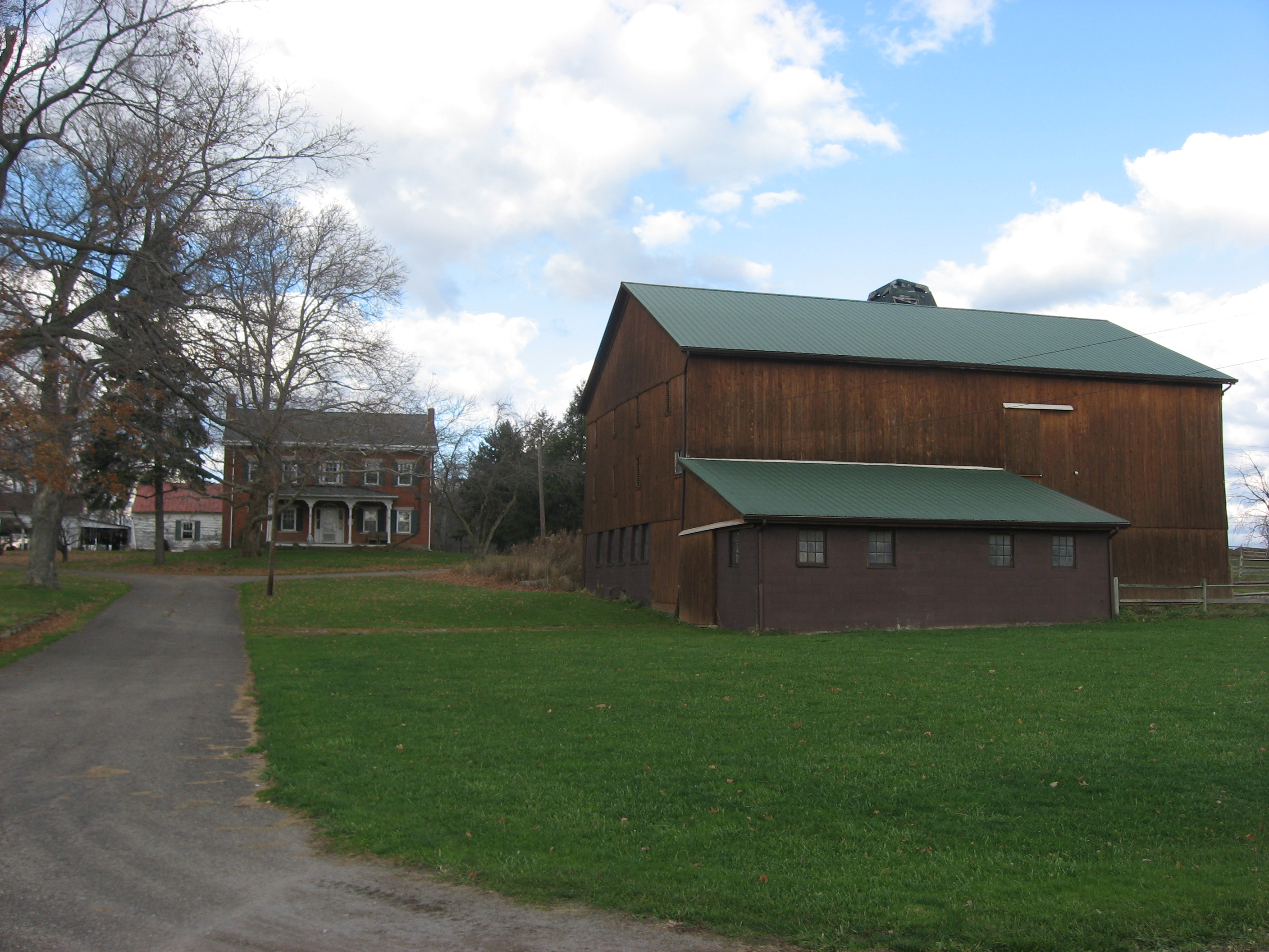 Roadside view of the McClelland Homestead, located along McClelland Road northeast of Bessemer in North Beaver Township, Lawrence County, Pennsylvania, United States. Built in the Federal style in the nineteenth century — the house circa 1840, and the barn circa 1850 — the farm complex is listed on the National Register of Historic Places.